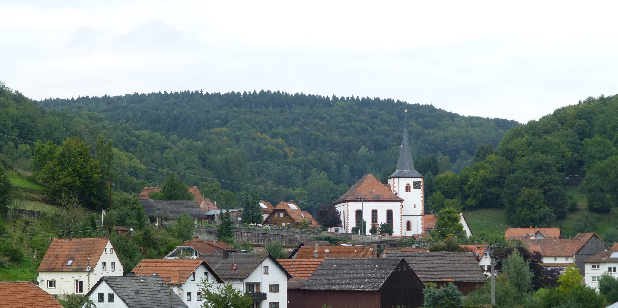 Village of Lohrhaupten, with Church St Mathew, part of Gemeinde Flörsbachtal. Hessen Spessart.